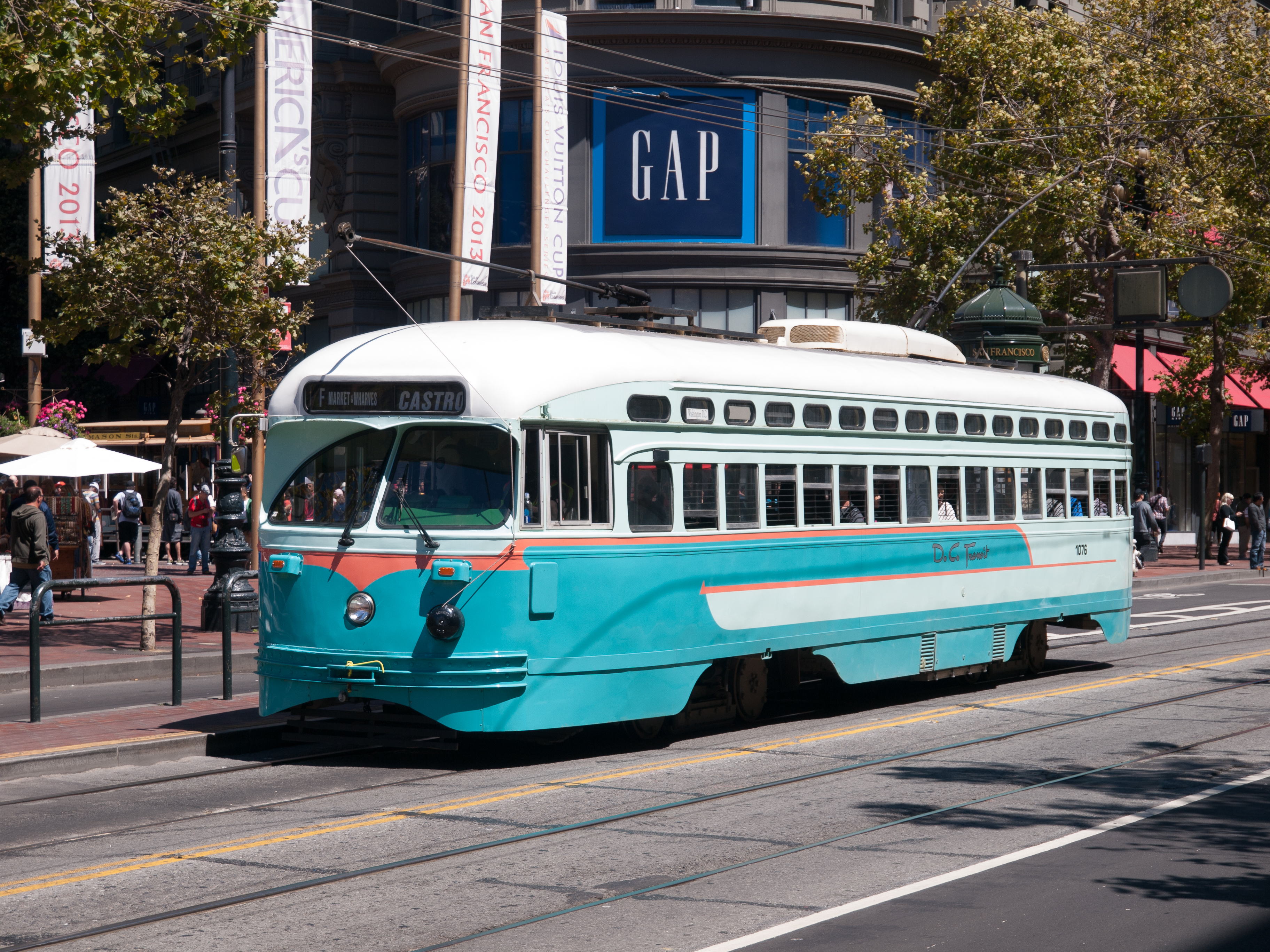 Muni 1076 on F Market and Wharves westbound at 5th Street in August 2013